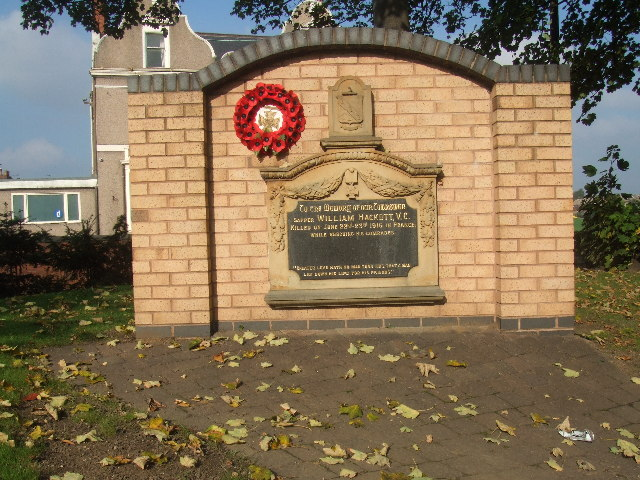 Monument to Sapper William Hackett (VC) in Castle Hill Park, Mexborough, South Yorkshire